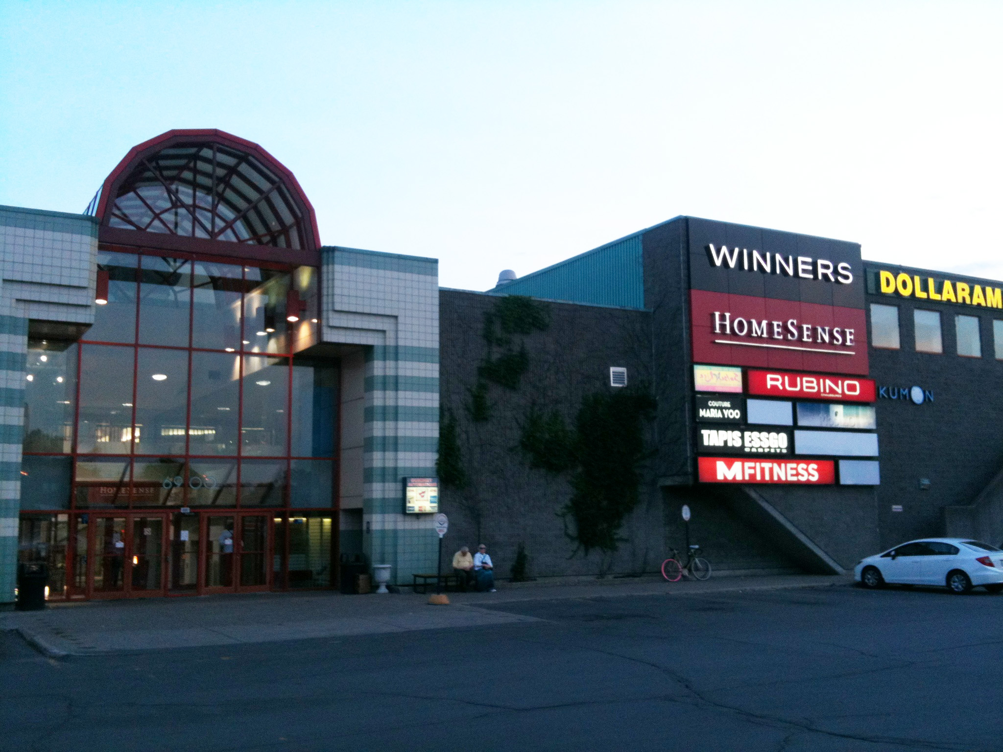 Front entrance of the Decarie Square shopping mall, located in the Cote-Saint-Luc district of Montreal.